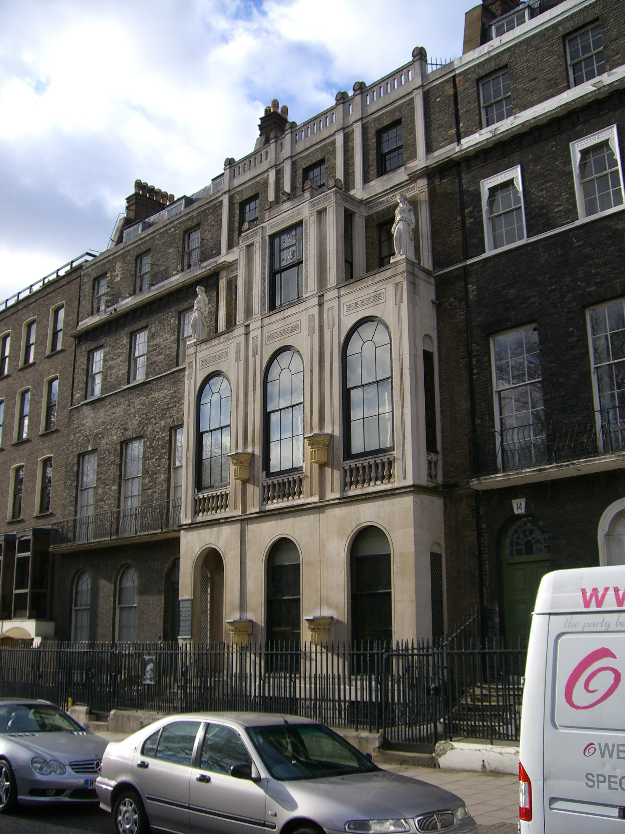 Soane Museum, 12-14 Lincoln's Inn Fields, London WC2A 3BP Photo taken by User:Edward on 19 March 2006 with a Casio EX-S600.